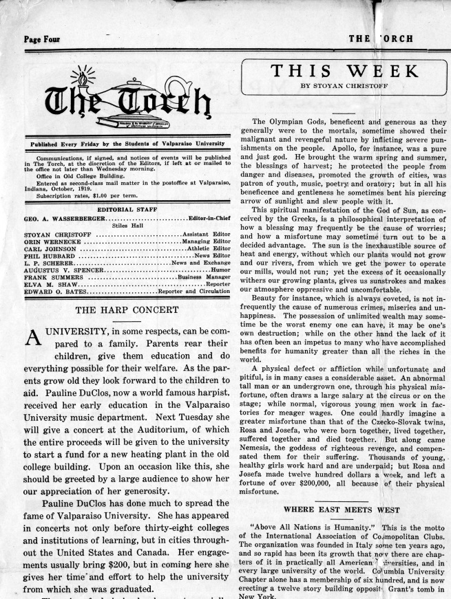 The TORCH with Stoyan Christowe as assistant editor.